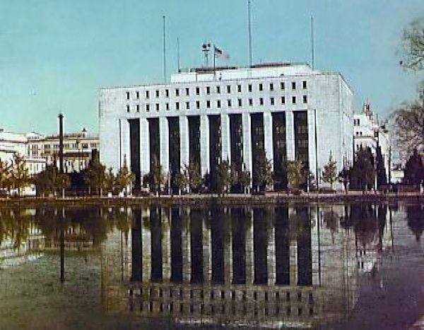 GHQ building circa 1950